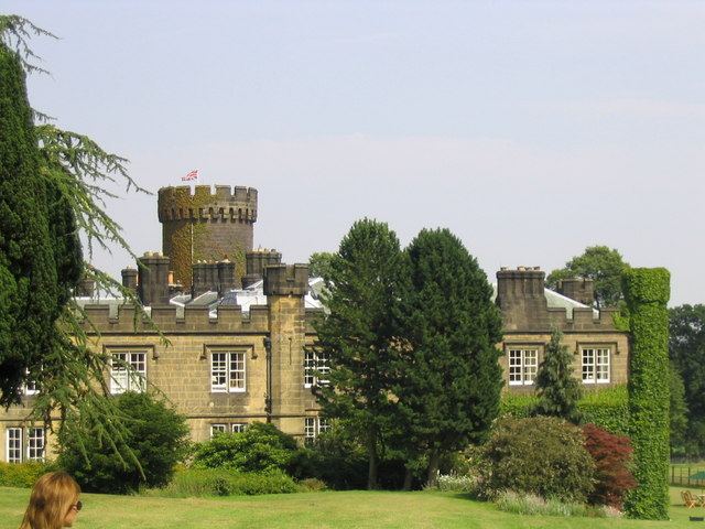 Behind Swinton Park Hotel